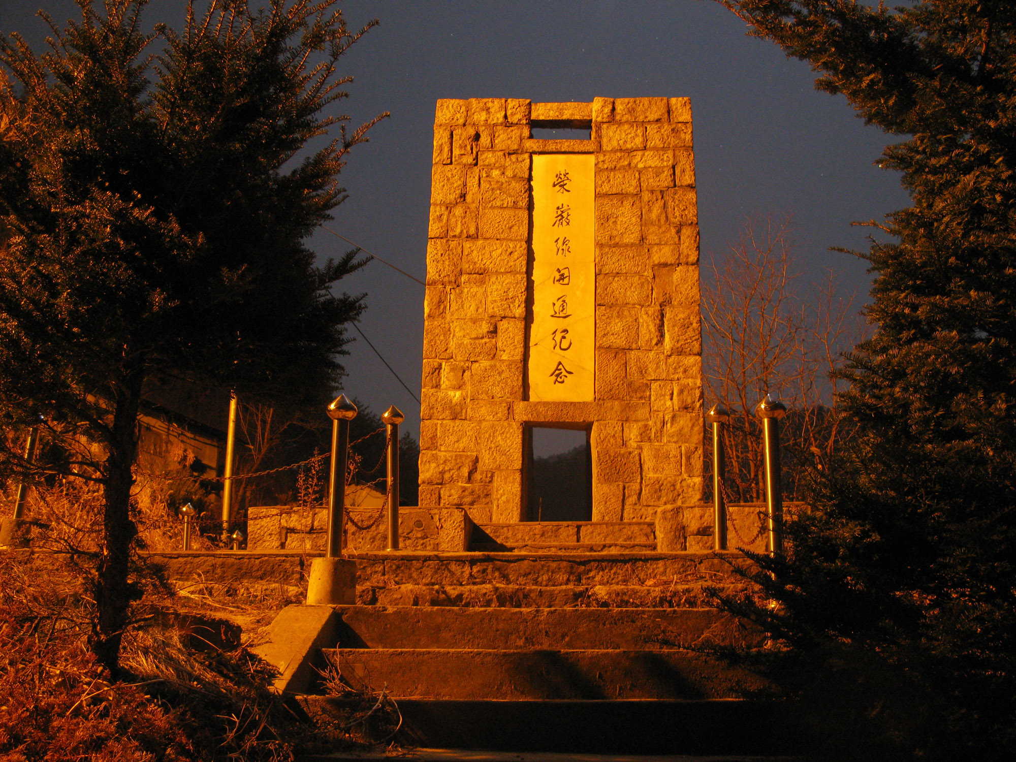 Yeongam Line Opening Monument